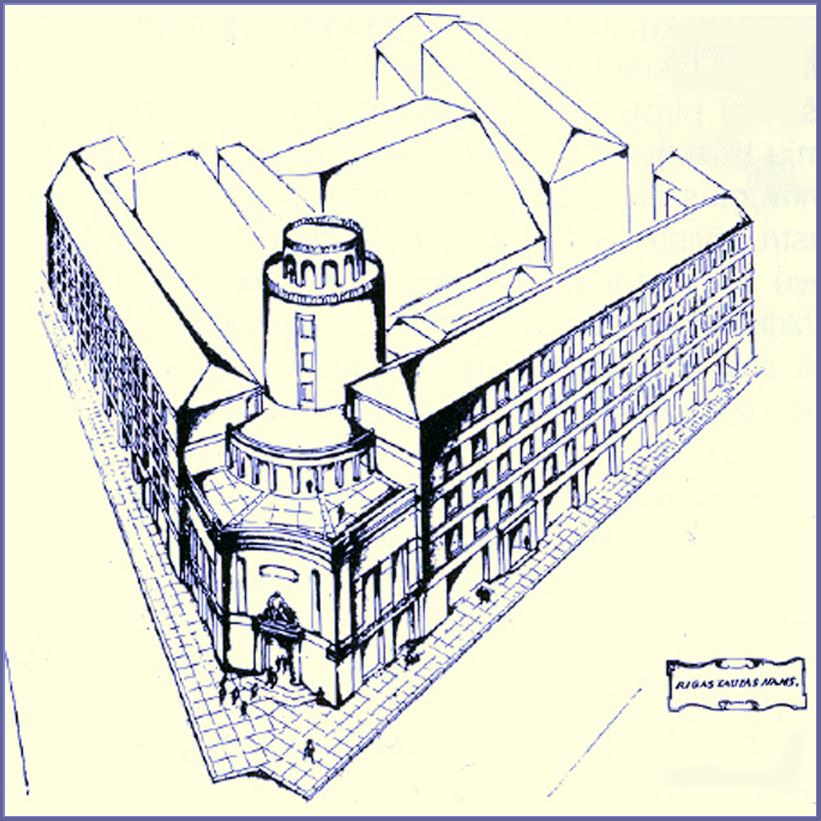 Architect Ernest Stalberg. Project - 1927., Bruninieku street № 29/31, Riga, Latvia. The project was implemented only partially.